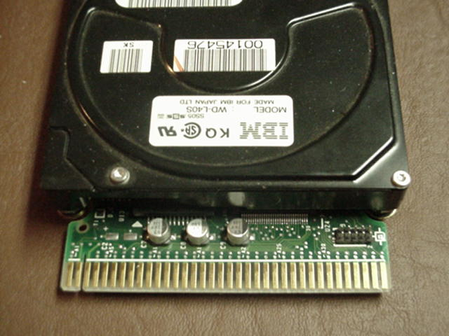 Closeup of the unusual IBM PS/2 Micro-Channel Architecture (MCA) connector on a PS/2 hard drive. This single connector conveys both power and data to the drive; mounting a generic IDE or MFM hard drive inside a stock PS/2 was impossible because separate 4-wire power connectors were not provided. (Building an adapter was technically possible.) The actual communication standard is unknown, but it is strongly suggested to have been ESDI. PS/2 systems could accept only one hard drive; no further internal expansion of capacity was permitted.